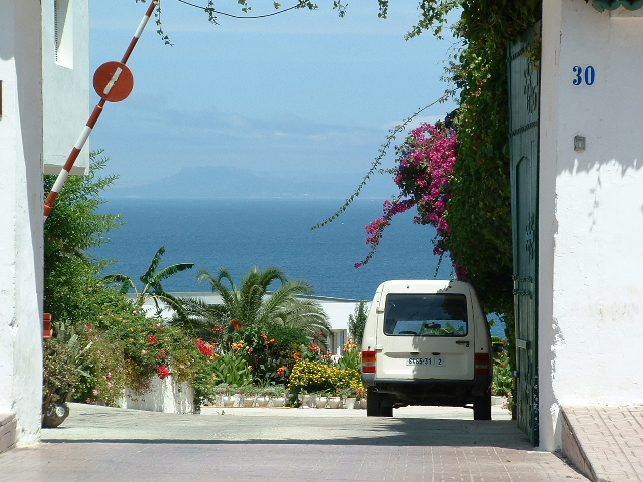 Citroen C15 seen in Tanger, Morrocco Picture from my private album, taken in 2002